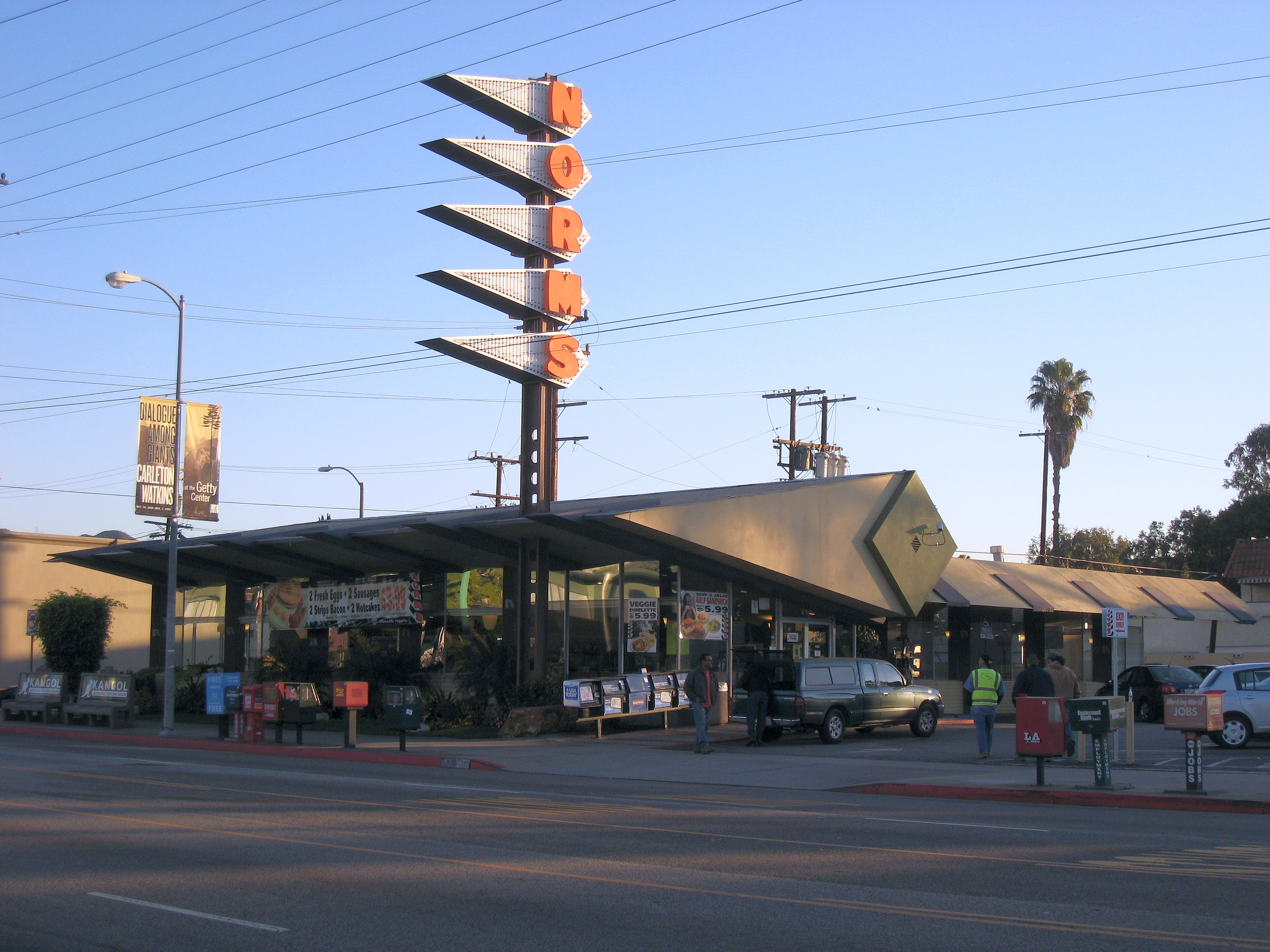 Norm's restaurant on La Cienega Boulevard in Los Angeles, California